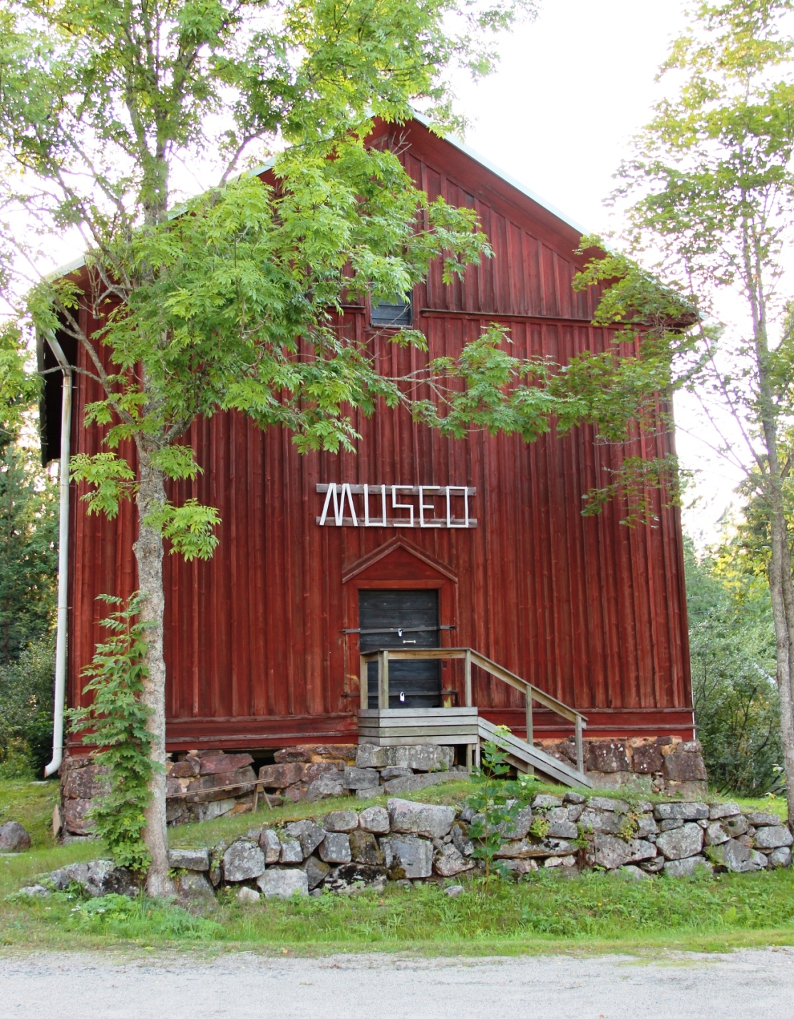 Suomusjärvi Museum, Suomusjärvi, Salo, Finland